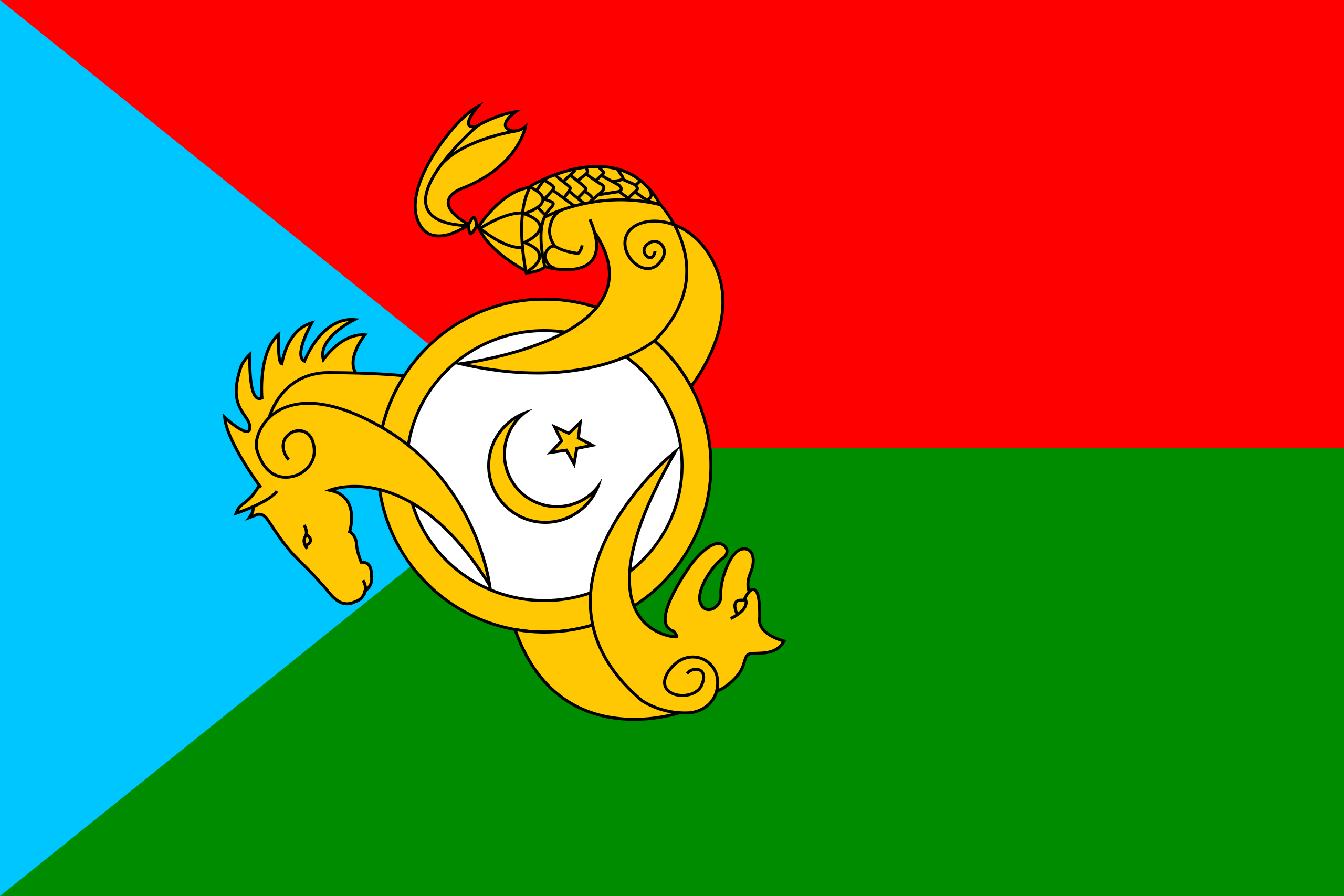 Flag of the Kumukh people of Dagestan, Russia.